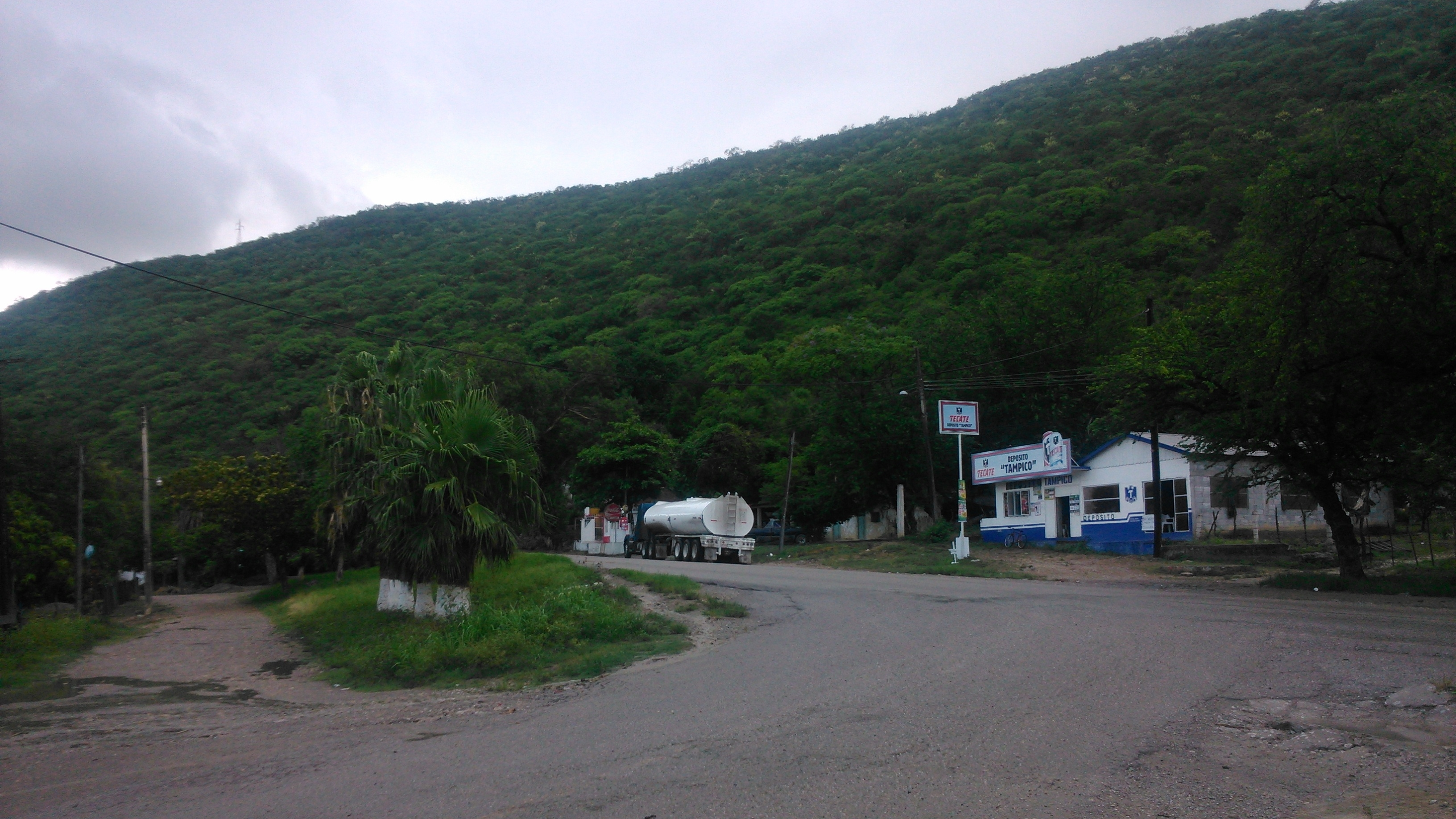 Cucharas sierra. El Mante, Tamaulipas.